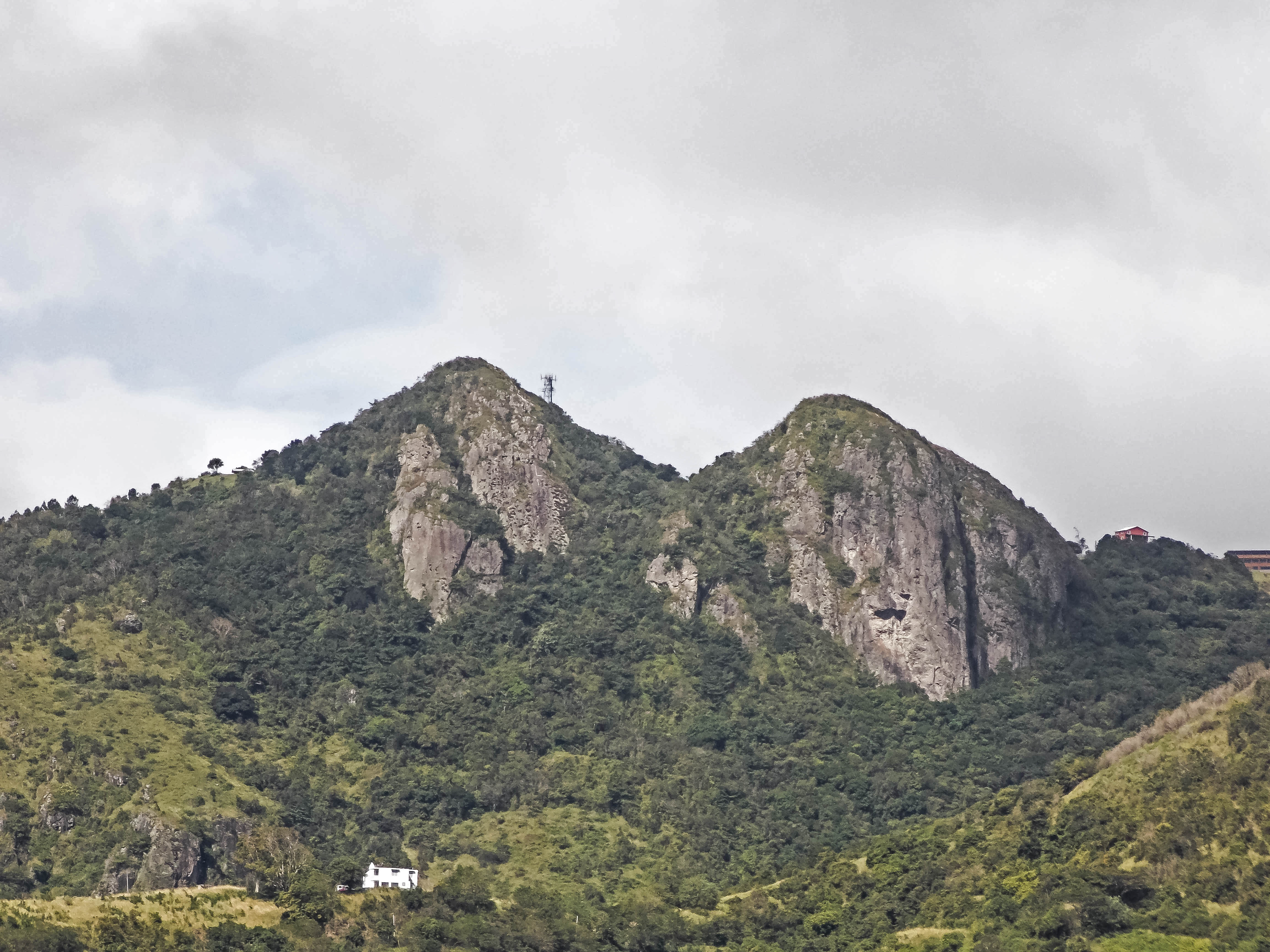 The twin peaks of Cayey, Puerto Rico